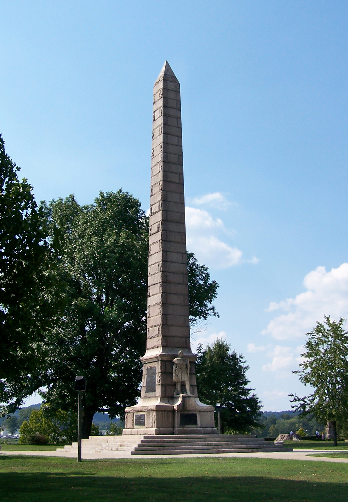 Photo by Brian M. Powell of Point Pleasant Battle Monument at Tu-Endie-Wei State Park.